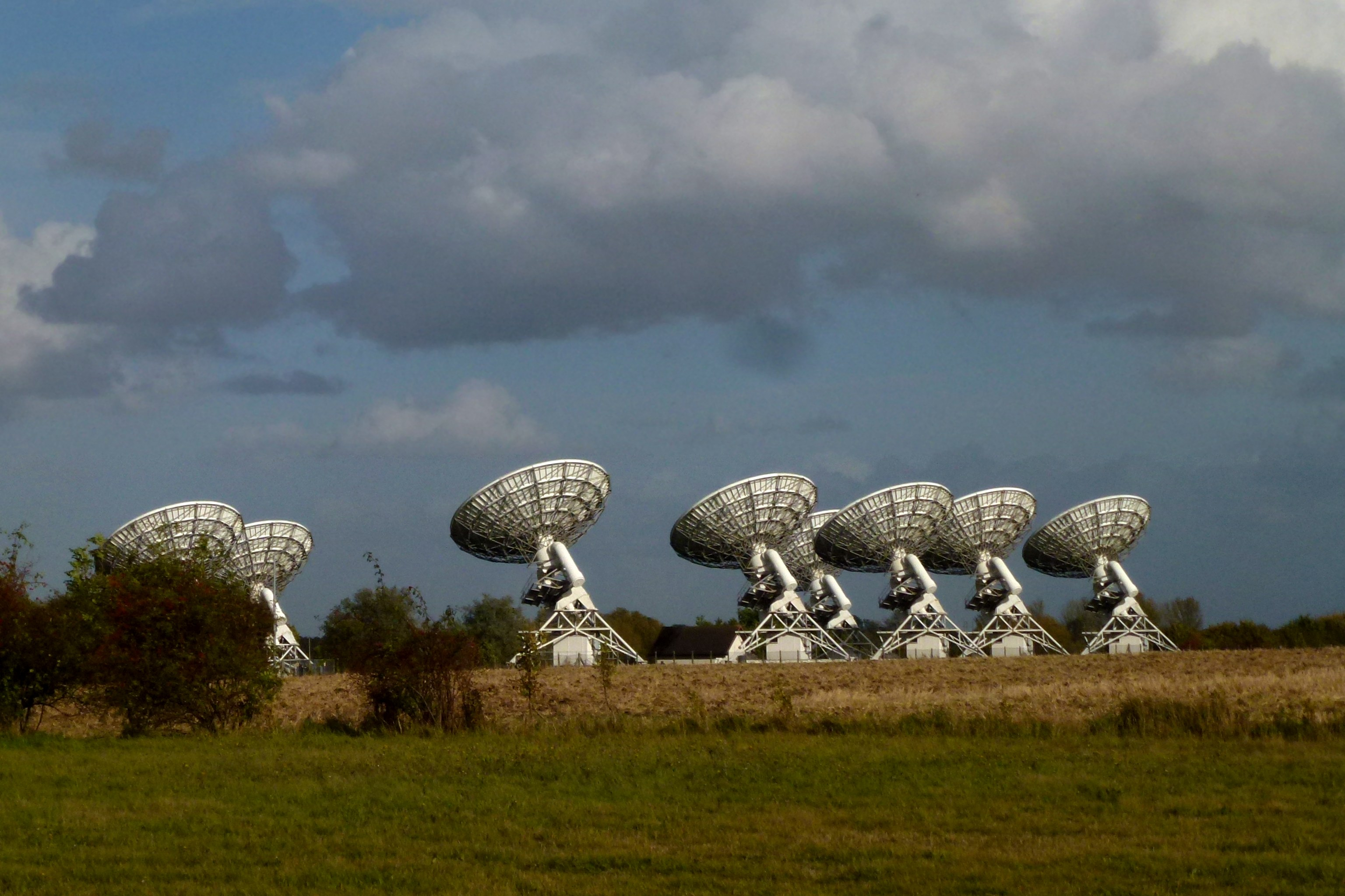 Several antennae of the Arcminute Microkelvin Imager Large Array telescope at the Mullard Radio Astronomy Observatory near Cambridge, England.